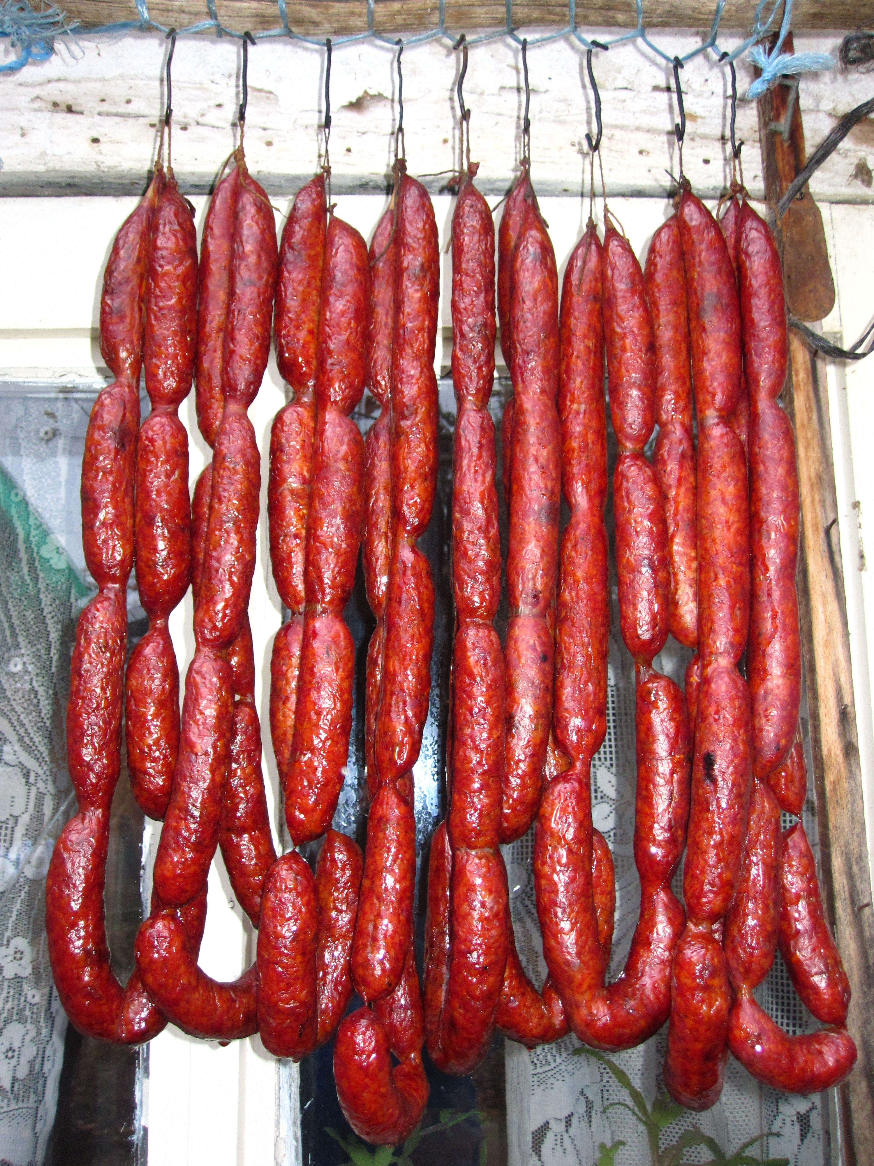 Smoked sausages made after a home recipe.